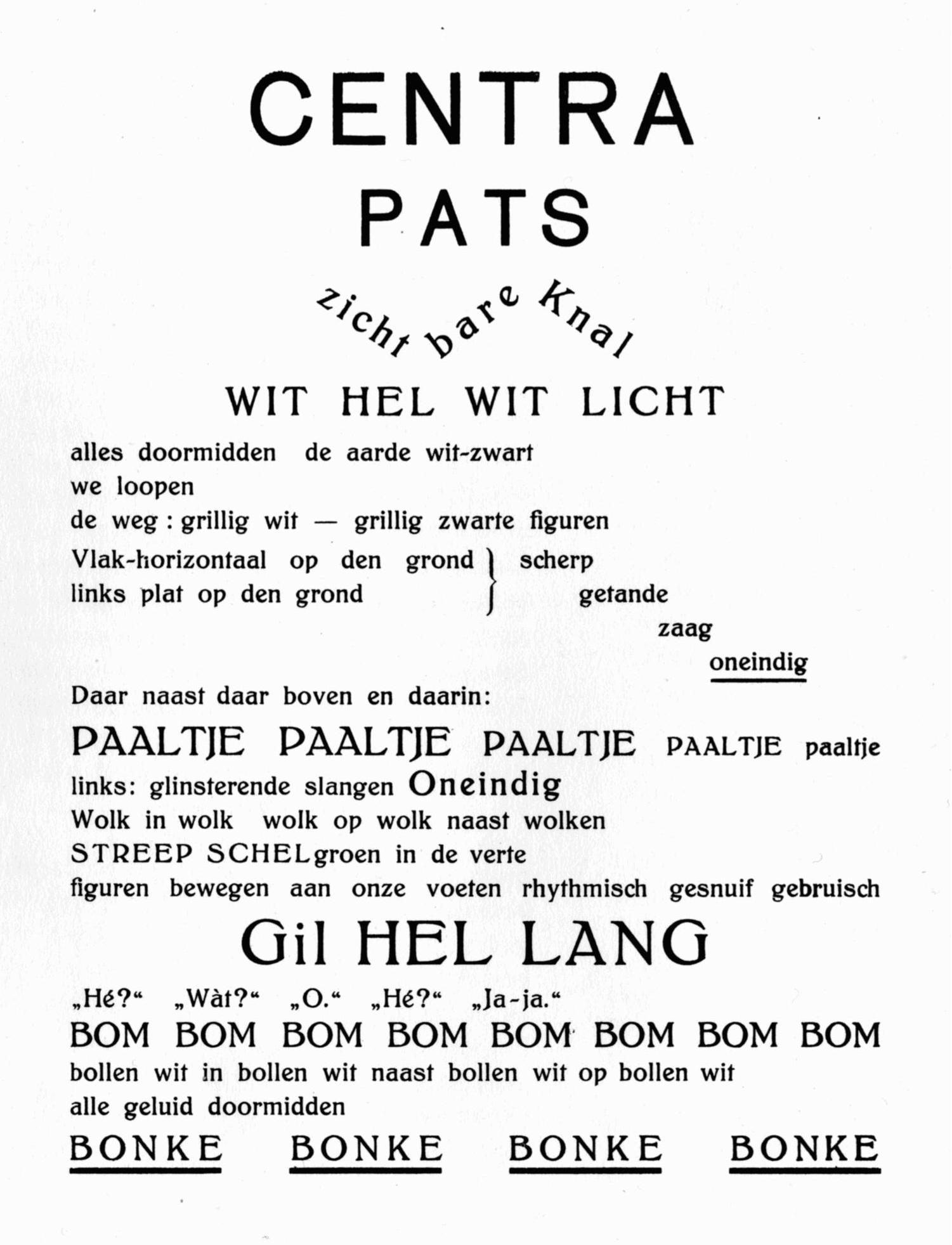 Centra Pats [poem].